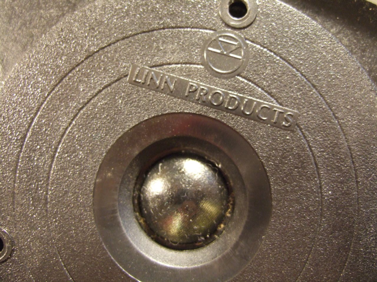 Linn Products D20-LP-1 tweeter sourced from Hiquphon in Denmark